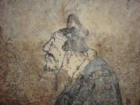 (071016) -- JINAN, Oct. 16, 2007 (Xinhua) -- Photo taken on Oct. 13, 2007 shows a fresco depicting ancient Chinese philosopher and educator Confucius (551 B.C.-479 B.C.), found in a tomb in an old residential yard in Dongping County, east China's Shandong Province. The fresco, discovered in a tomb dating back to about 2,000 years ago, is well preserved with images of drinking, dancing, cock fighting, women servants and historical stories in legible colors, heritage workers said. (Xinhua) (clq)/(zlq)